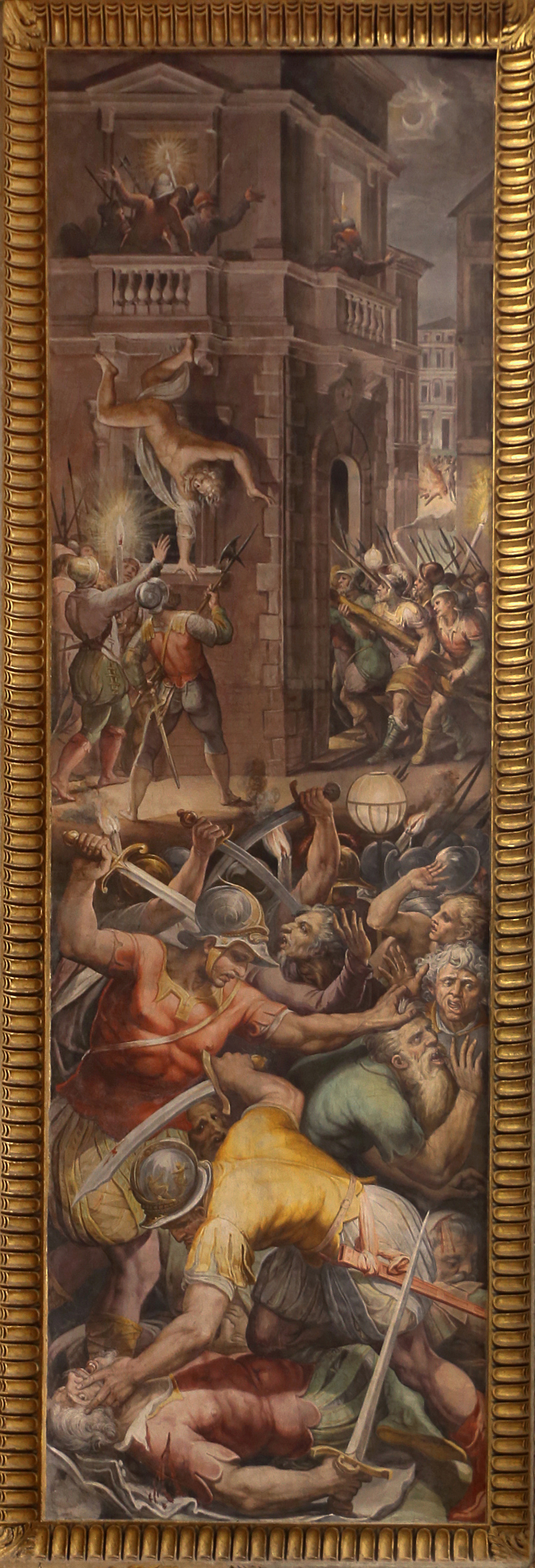 Sala Regia - Frescos by Giorgio Vasari and workshop